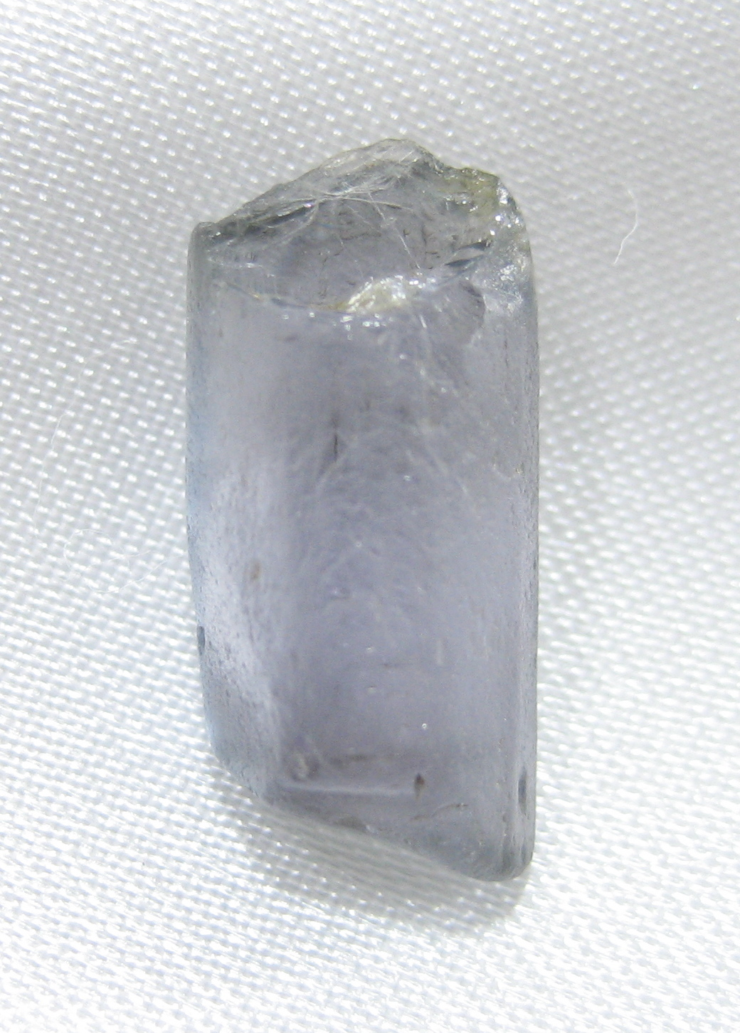 Sillimanite made in Sri Lanka. taken by Azuncha.